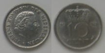 10 cent 1950